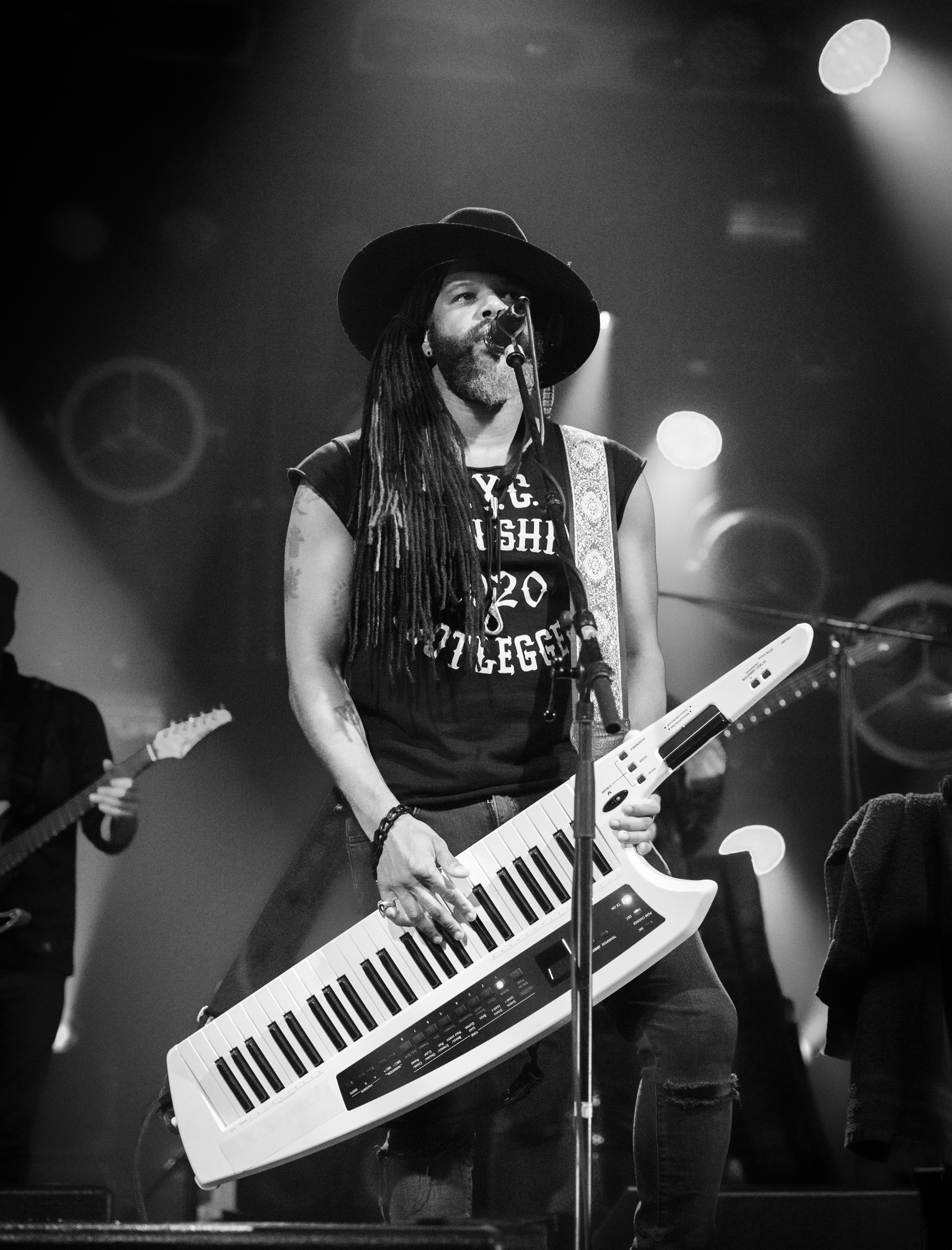 Casey Benjamin with Robert Glasper Experiment - Leverkusener Jazztage 2016